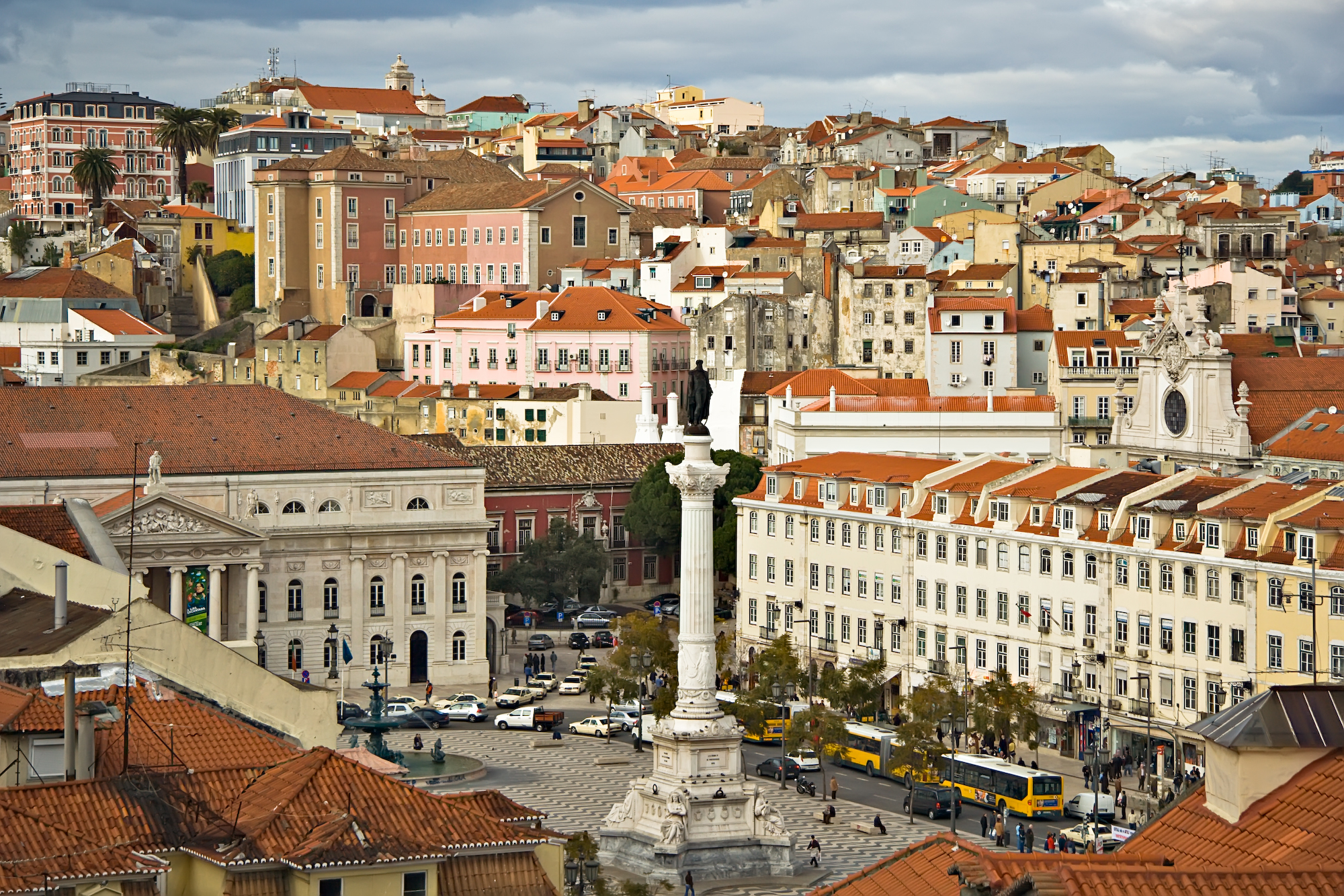 View from the historic elevator de Santa Justa toward praça don Pedro, Lisbon, Portugal.